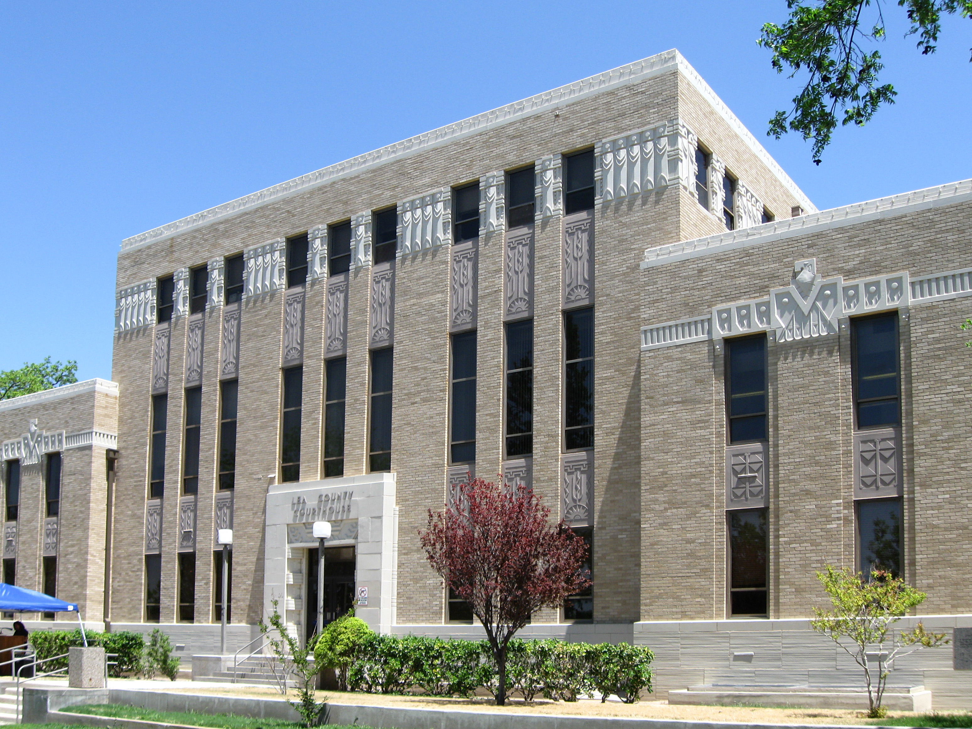 Lea County (New Mexico) Court House, located at 100 N. Main in Lovington, New Mexico. According to a plaque on the lower right of the building, the court house was built in 1936, with O. R. Walker the architect and W. S. Moss the builder.